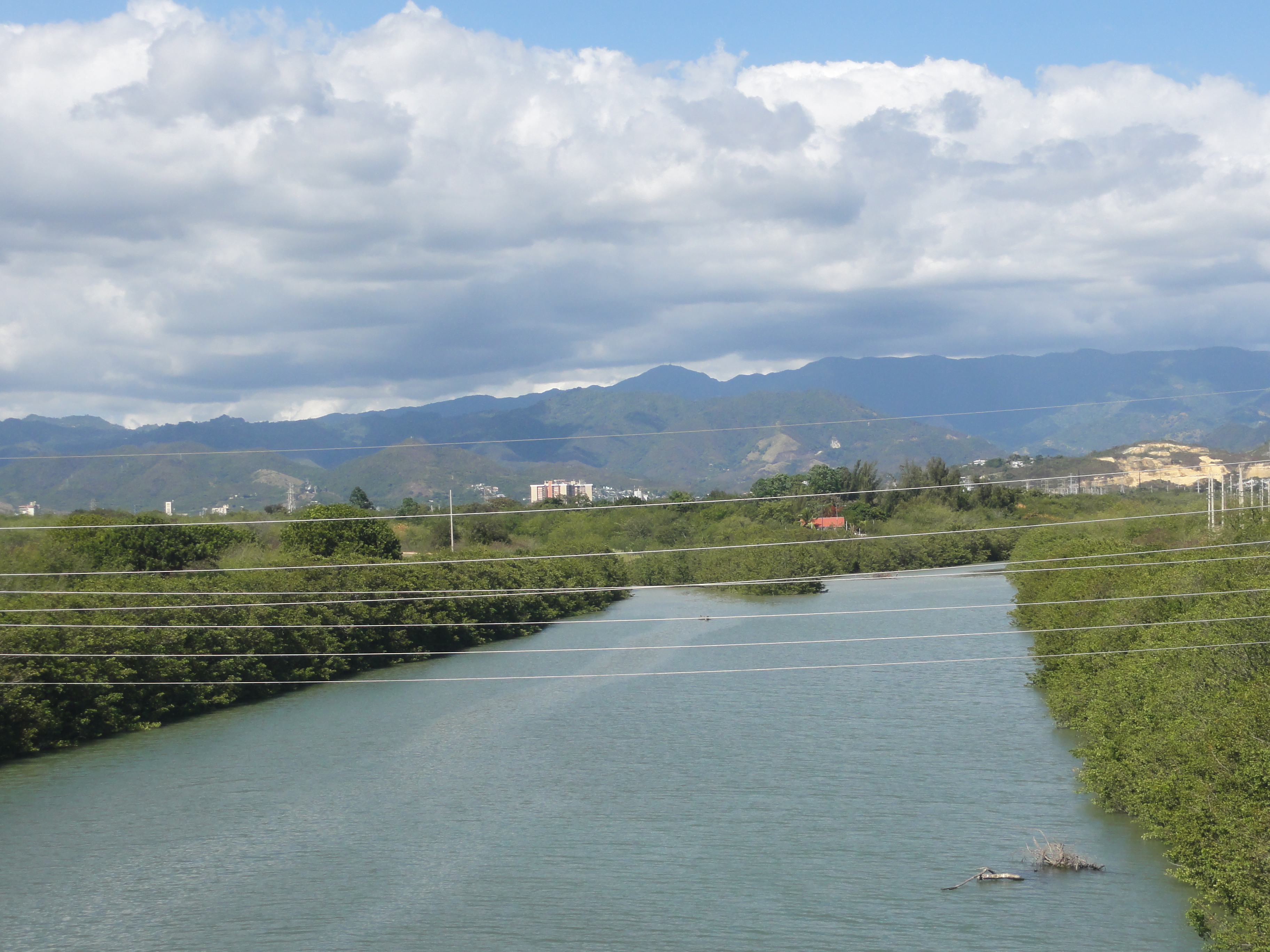 Río Portugués (izq.) alimenta al Río Bucaná (der.), tomada mirando al norte desde la Carr. PR-52, Bo. Bucaná, Ponce, PR (DSC05627)